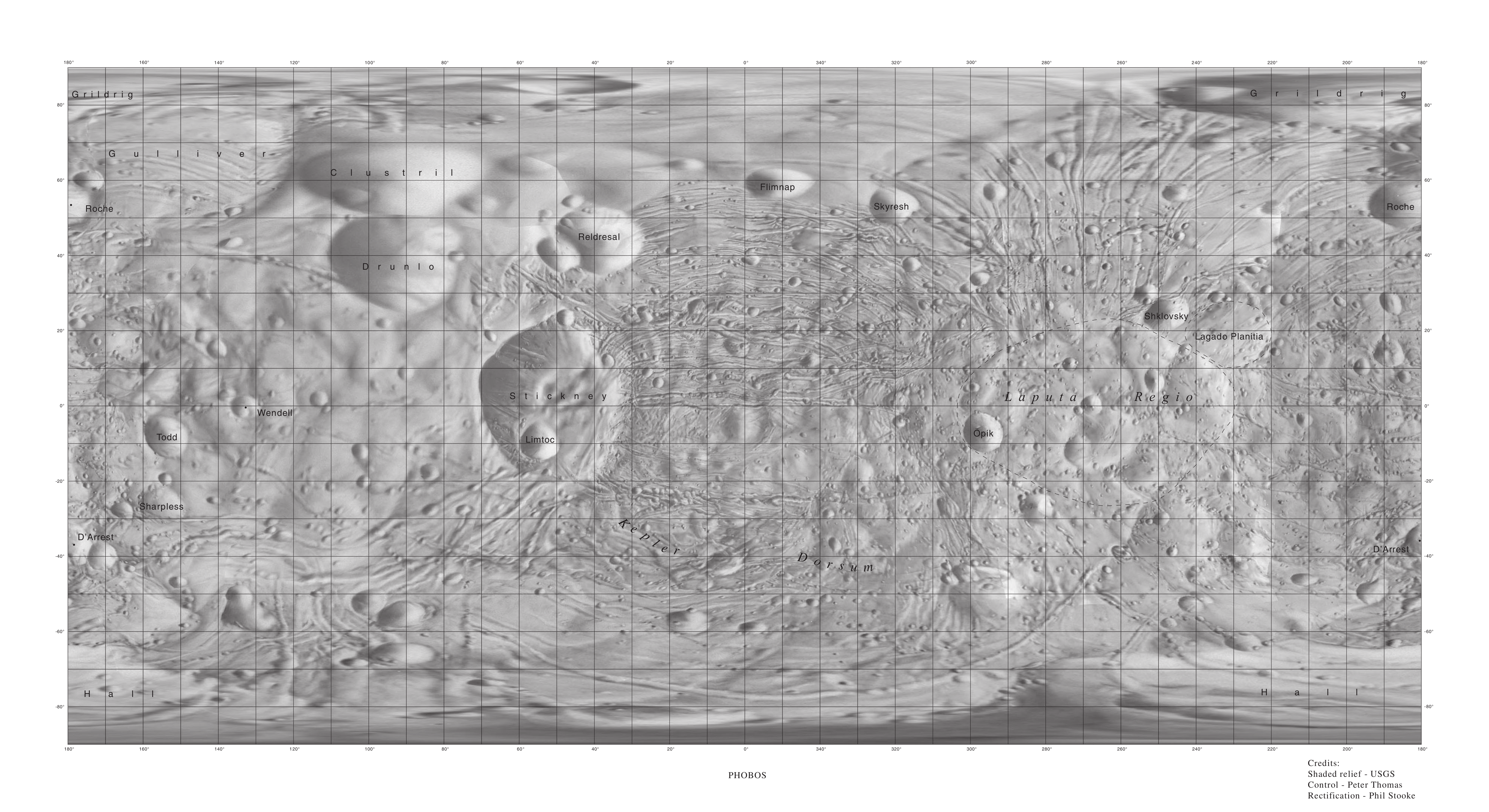 Equirectangular projection map of the Mars moon Phobos, created by the United States Geological Survey. Shaded Relief - USGS Control - Peter Thomas Rectification - Phil Stooke UPLOADER NOTE: Converted the original PDF file to a PNG File (via GIMP v2.8.4 program) - and uploaded to Wikimedia Commons - Enjoy! :) Drbogdan (talk) 19 August 2013 (UTC)